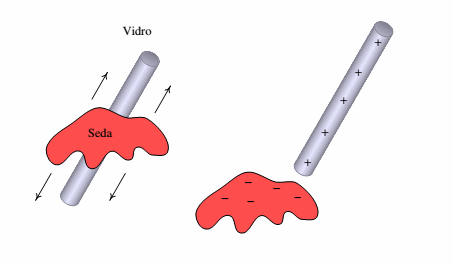 Frictional electrification